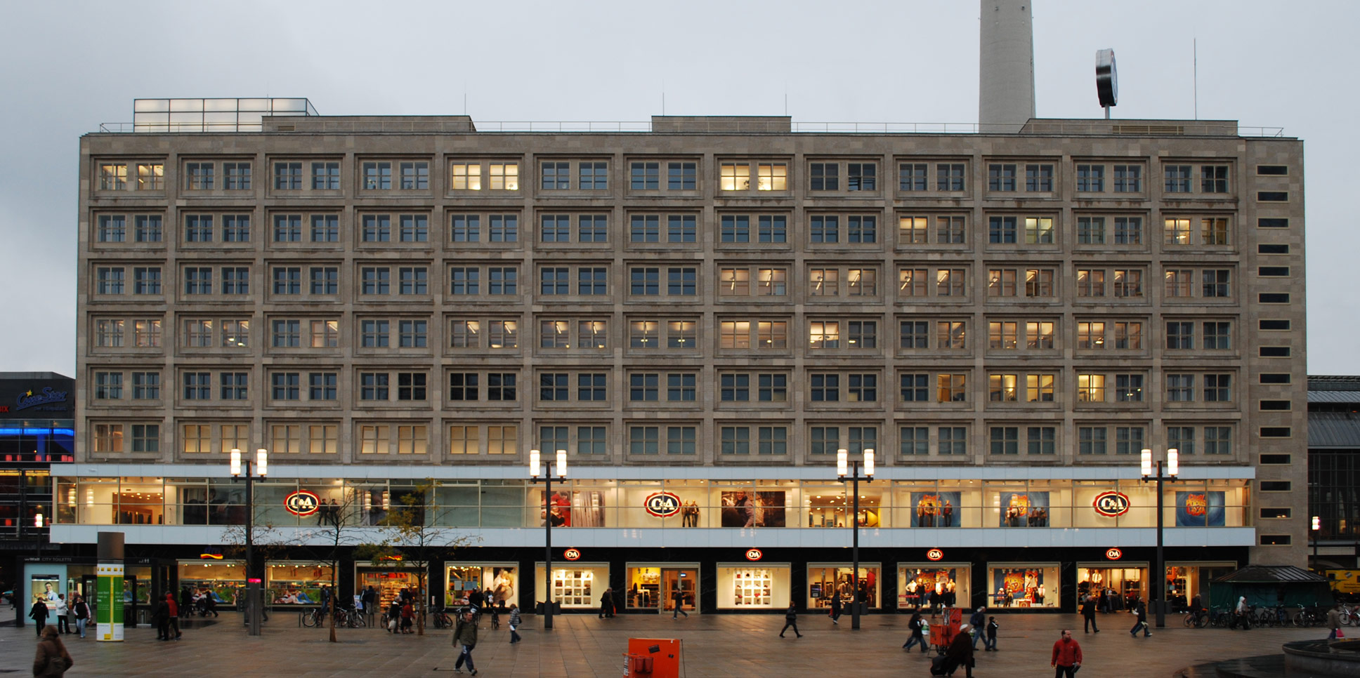 "Berolinahaus" at Berlin Alexanderplatz